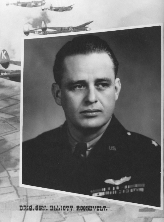 Brig. Gen. Elliott Roosevelt, Commander, 325th Photographic WIng (Reconnaissance)